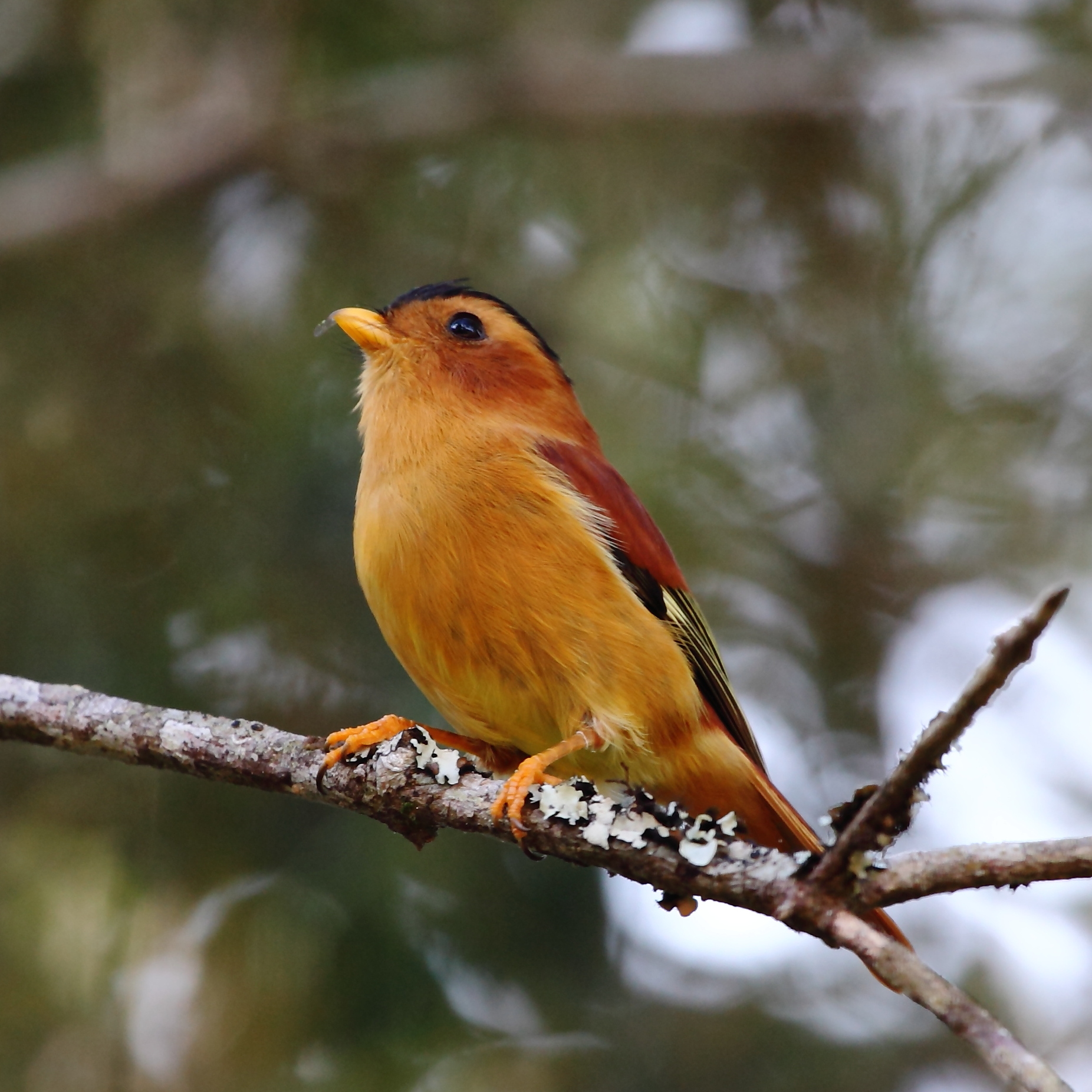 Black-capped Piprites (male) at Campos do Jordão - SP - Brazil